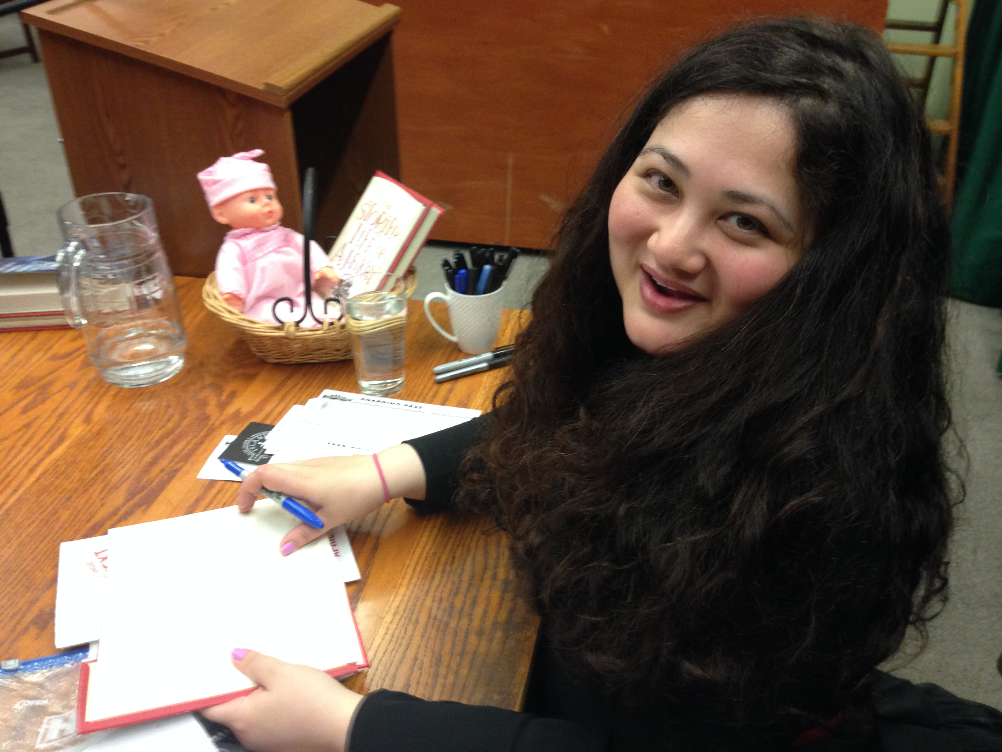 Gabrielle Zevin signs the Storied Life of A.J. Fikry at Vroman's Bookstore in Pasadena, CA, April 1, 2014.